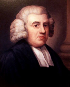 John Henry Newton, Jr. (1725-1807) was an Anglican clergyman and former slave-ship captain. He was the author of many hymns, including Amazing Grace.